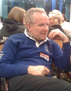 Bishop Kieran Conroy, Bishop of Arundel and Brighton